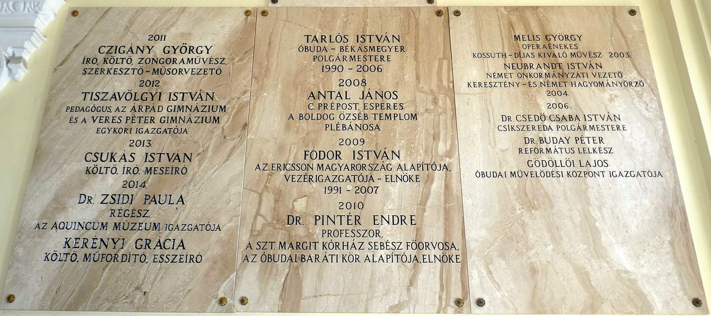 Plaque for the persons elected honorary citizens of Óbuda-Békásmegyer between 2004 and 2014. It is affixed in the doorway of the town-hall of the 3th District of Budapest. (Budapest, District III, Fő Square Nr 3)